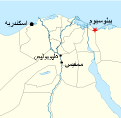 Location map of Egypt Equirectangular projection, N/S stretching 110 %. Geographic limits of the map: * N: 32.1° N * S: 21.3° N * W: 24.2° E * E: 37.3° E